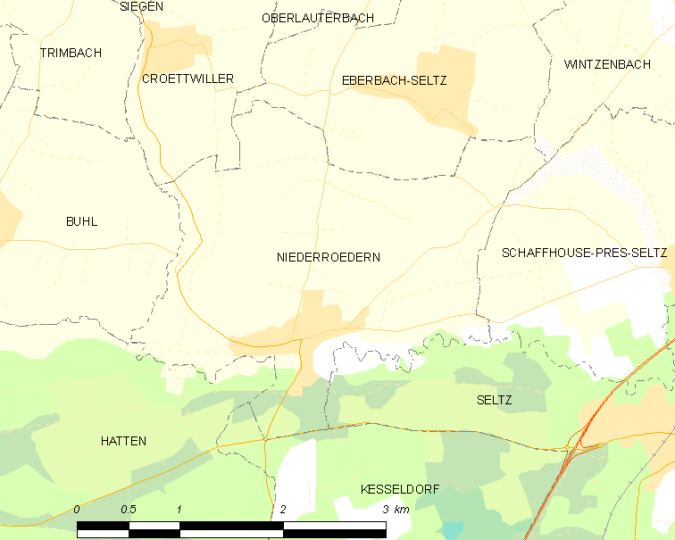 Map of French municipality